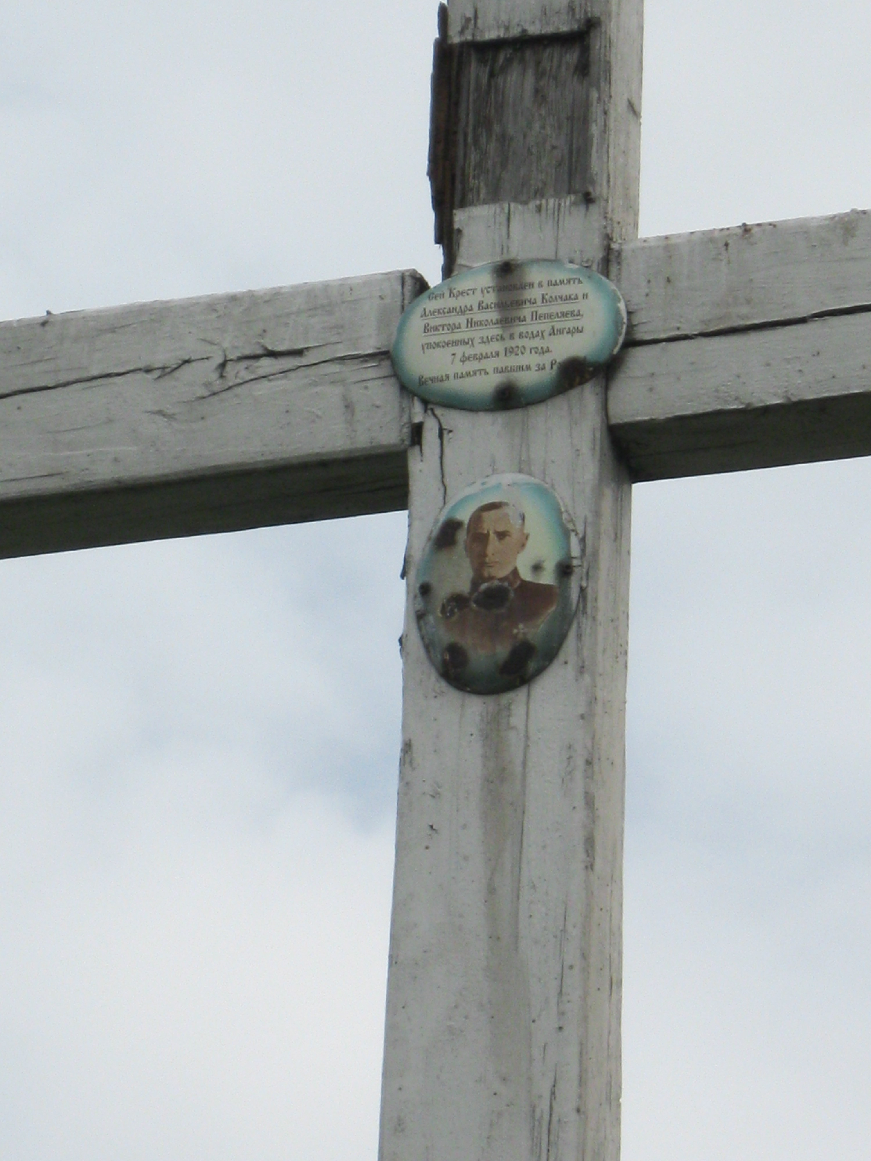 Kolchak Krest (fragment)